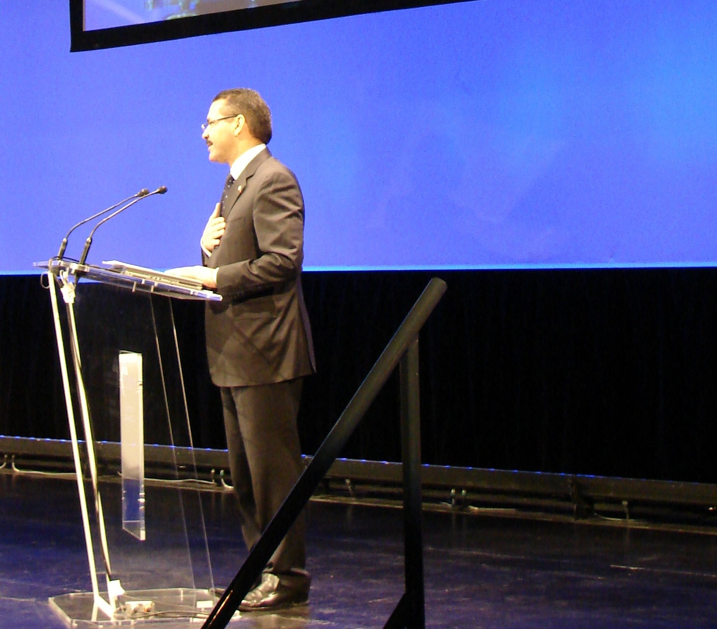 Ronald Noble at at 6th Global Congress about combating piracy and counterfeilting